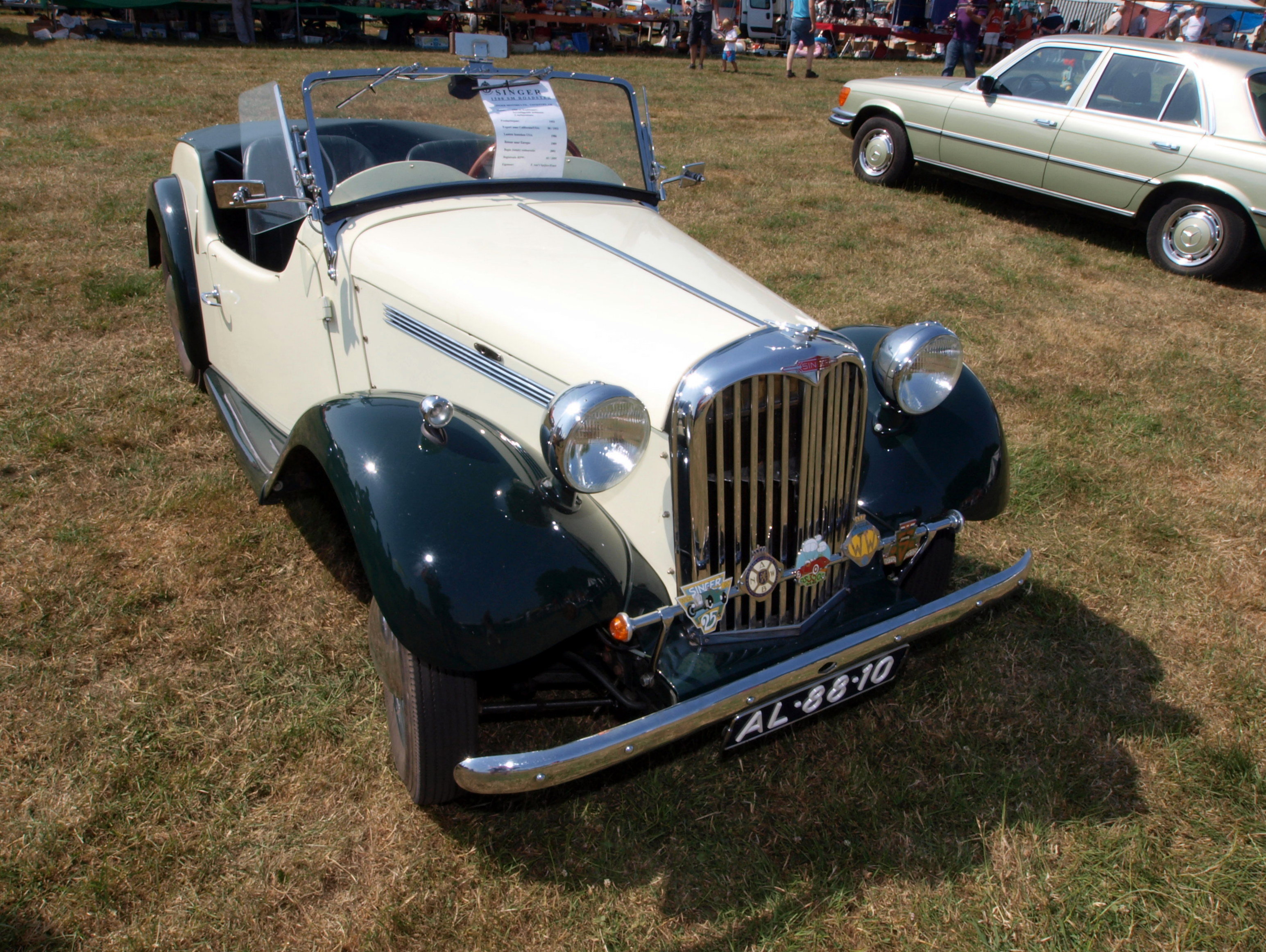 Photographed in The Netherlands. 1955 Singer SM Roadster 4ADT.